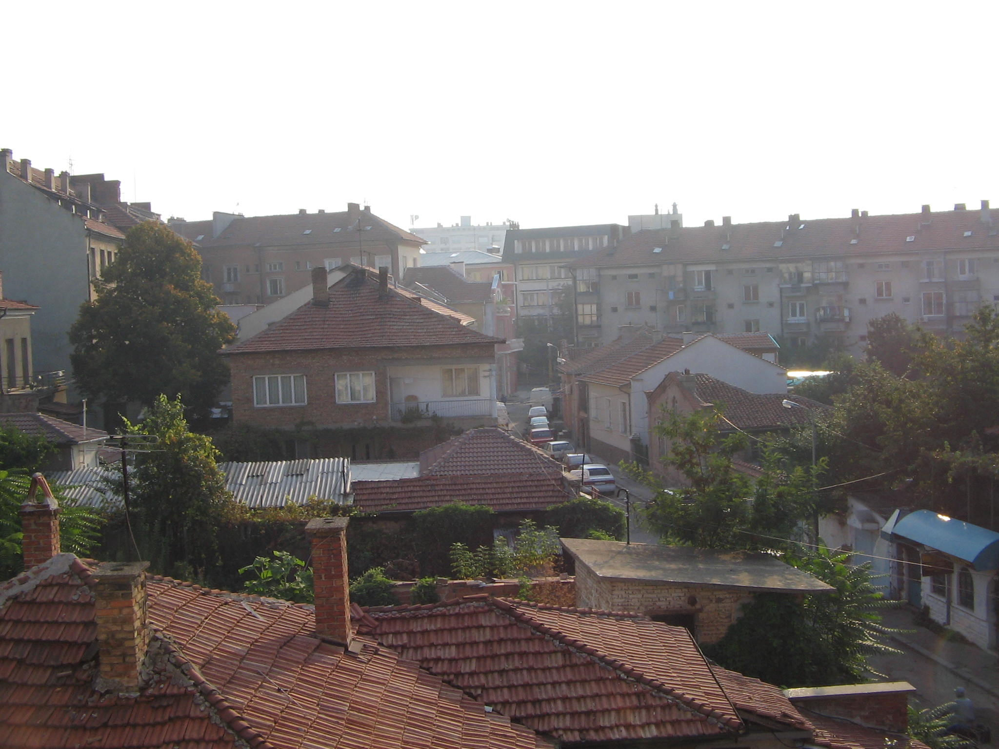 Picture taken by myself.